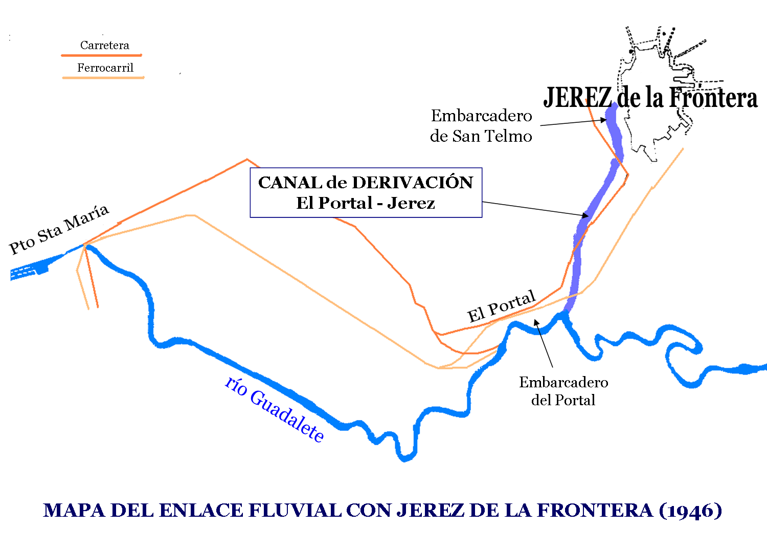 River Port project in Jerez de la Frontera